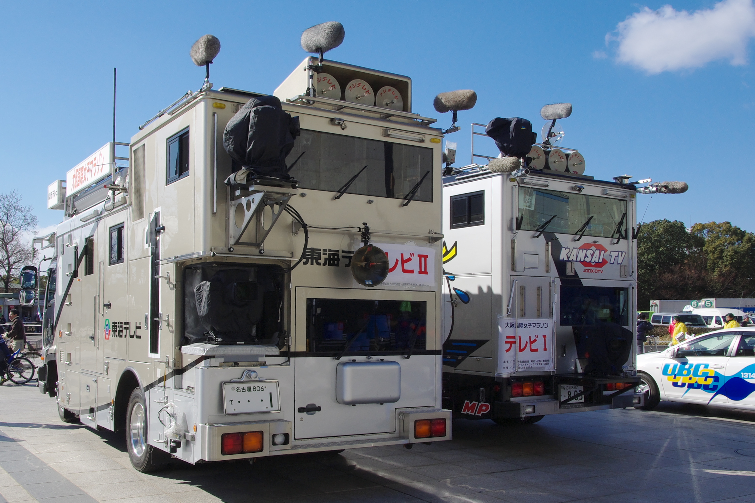 Photograph of multi-purpose outside broadcasting vans of Tokai Television Broadcasting Company (left, Isuzu Forward) and Kansai Telecasting Corporation (right, Fuso Canter), taken in the marathon gate of Nagai Stadium, Higashisumiyoshi-ku, Osaka, Osaka Prefecture, Japan.